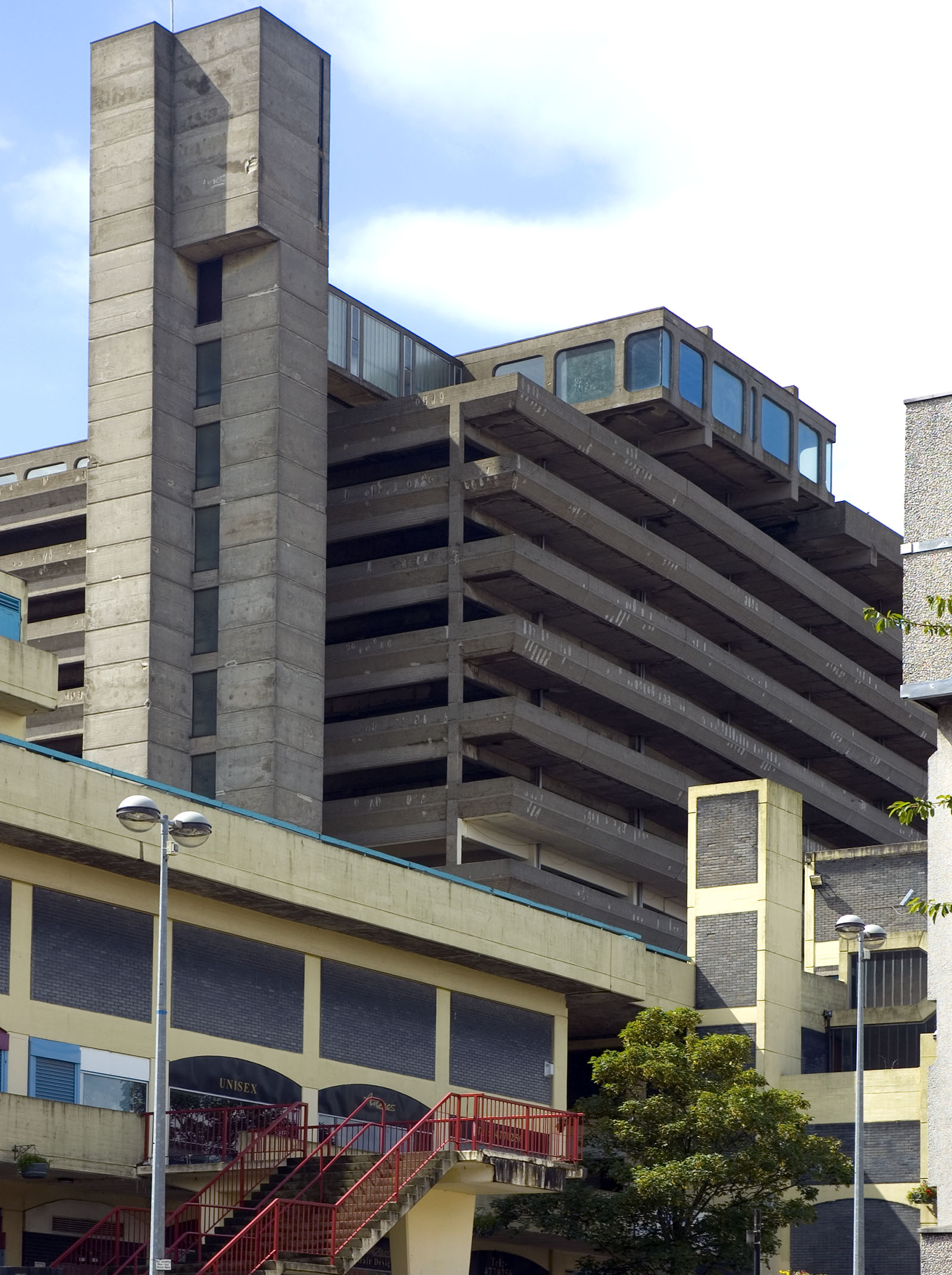 Trinity Centre Car Park, Gateshead, July 2007. Architect: Owen Luder. See also